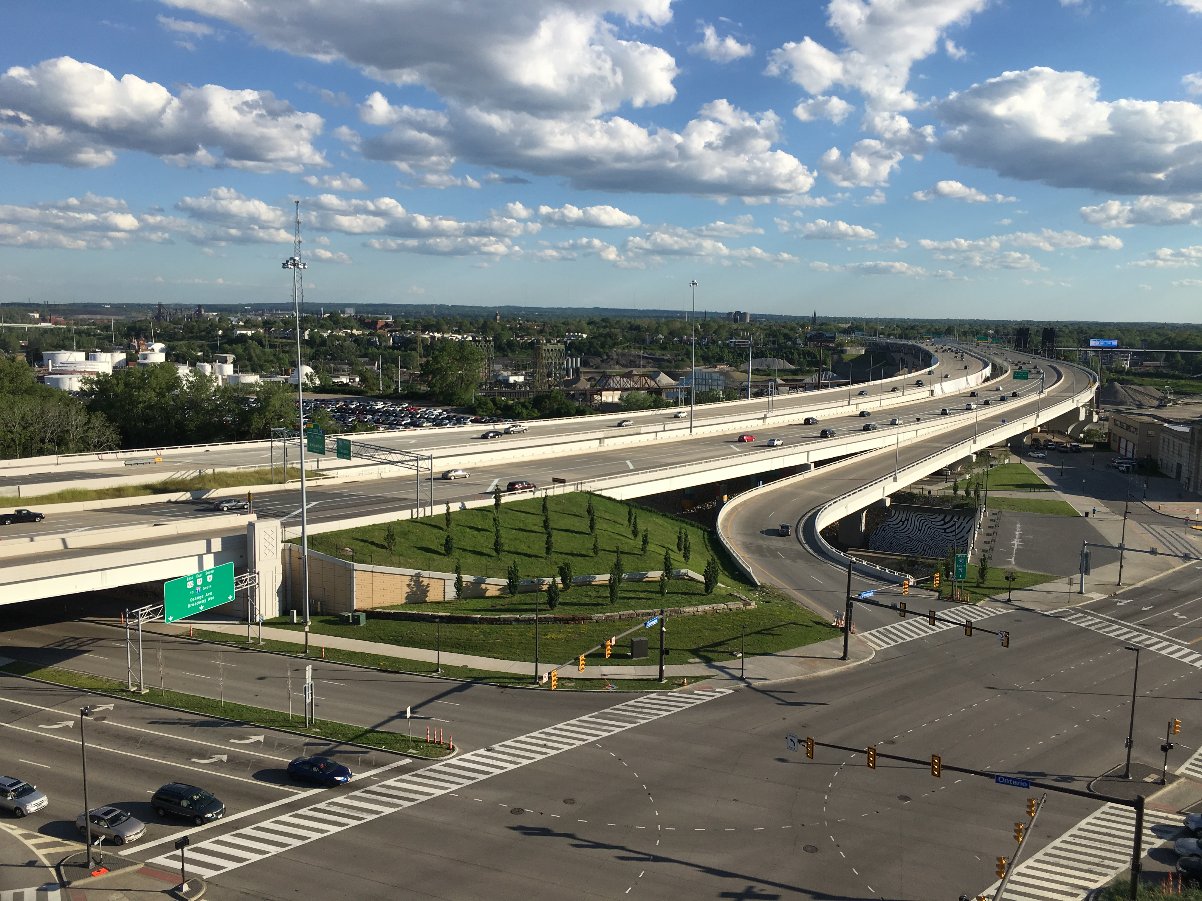 View of the George V. Voinovich Bridges in downtown Cleveland looking southwest from Progressive Field, with the intersection of Ontario Street and Carnegie Avenue in the foreground.